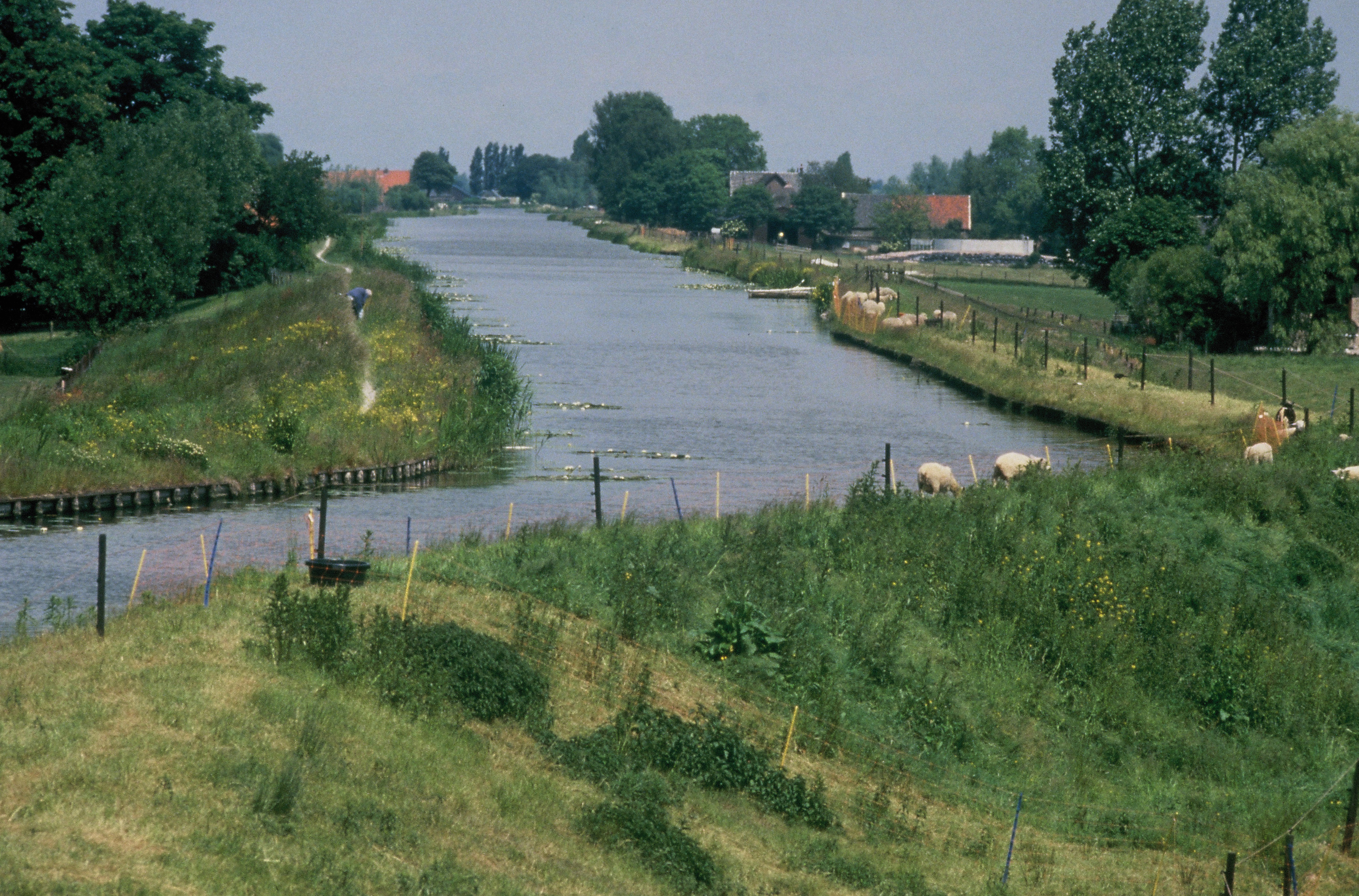 Typical polder channel and small dikes in the Netherlands. Notice that the level in the canal is much higher than the surrounding landscape. Rainwater from the land is pumped by pumping stations into this canal, and then discharges into the sea.